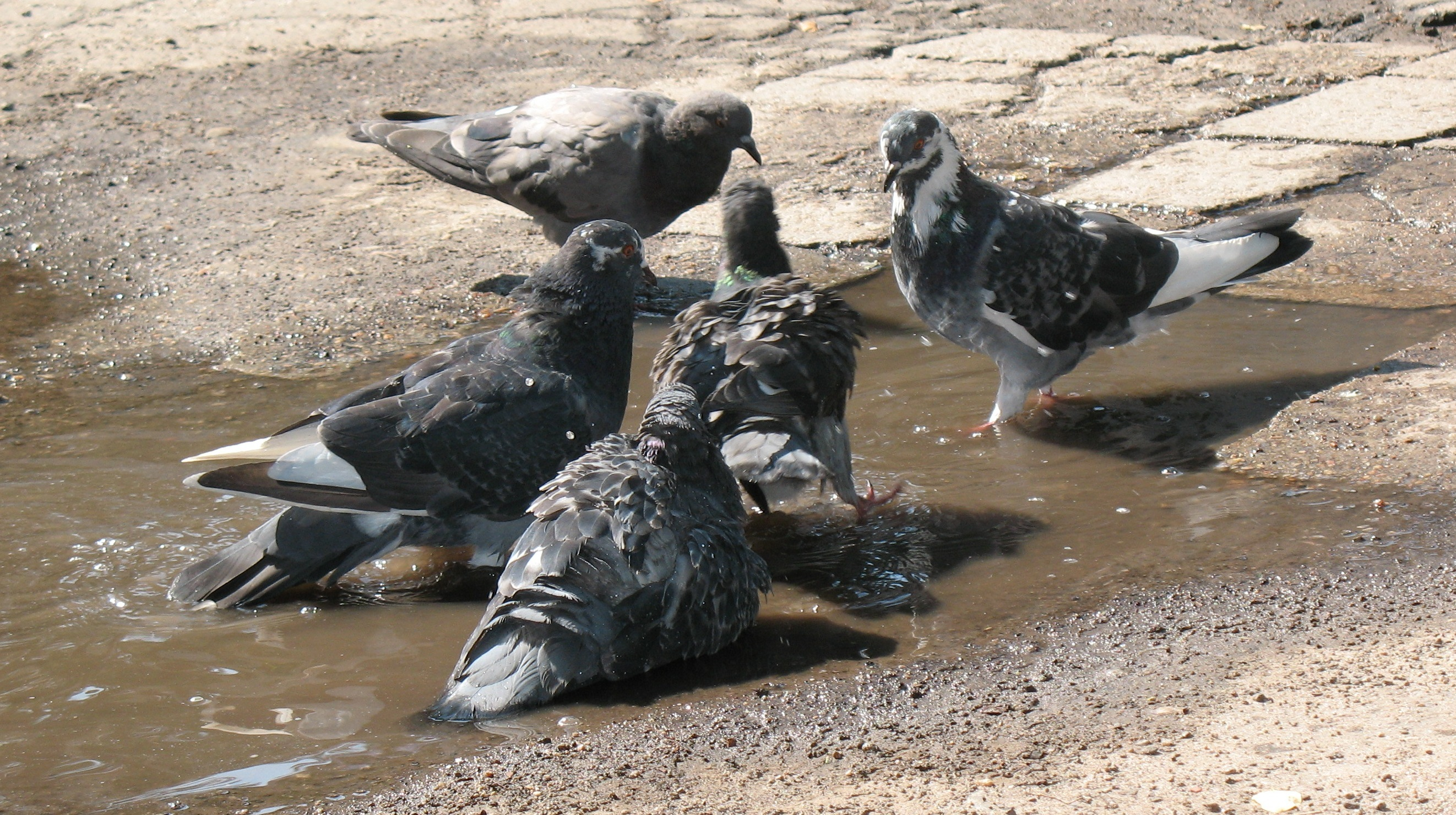 Rock Pigeons in 2010 Northern Hemisphere summer heat wave. Kharkov. + 37 C.